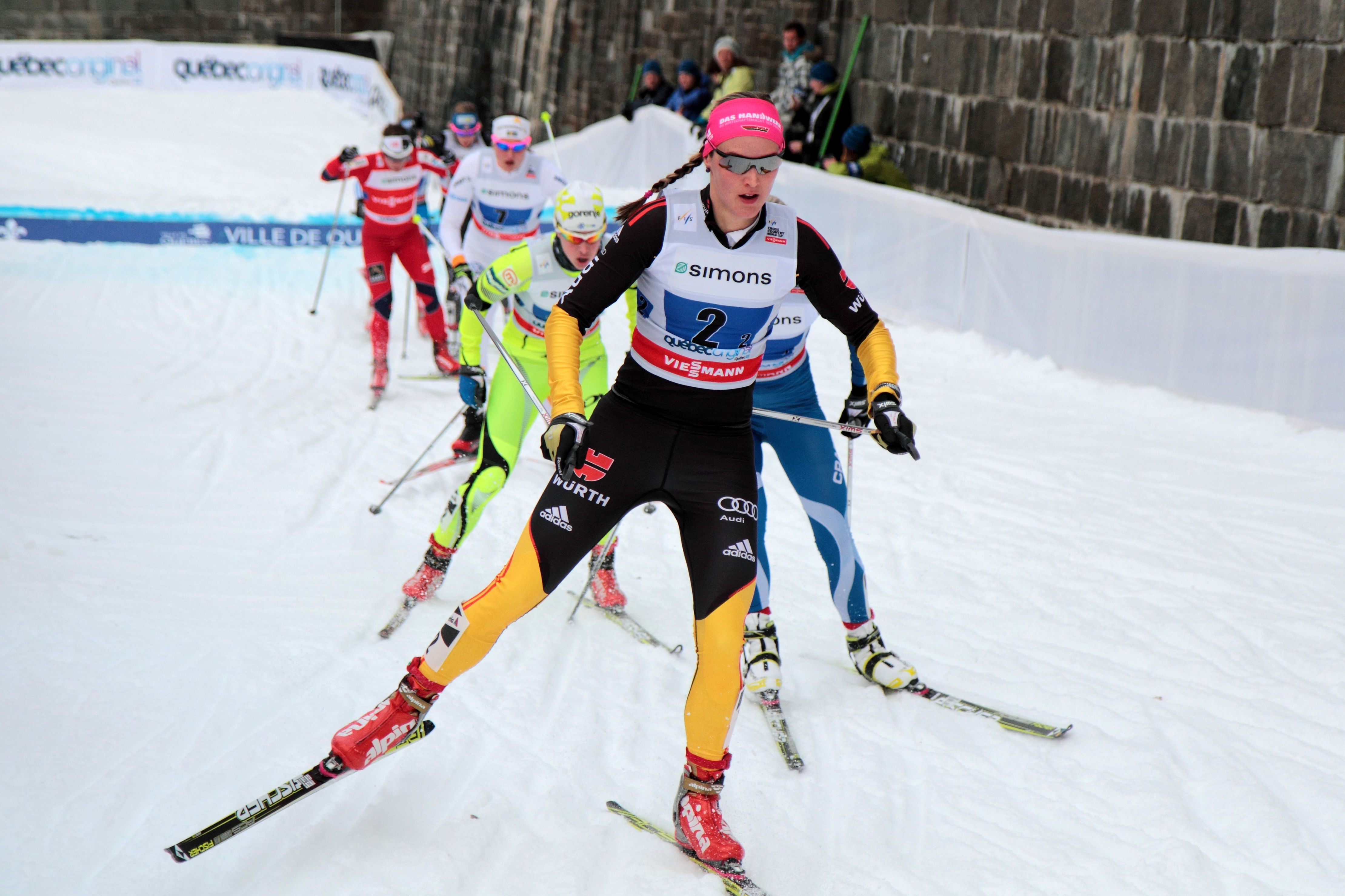 Denise Herrmann, FIS Cross-Country World Cup 2012, Quebec, Canada.